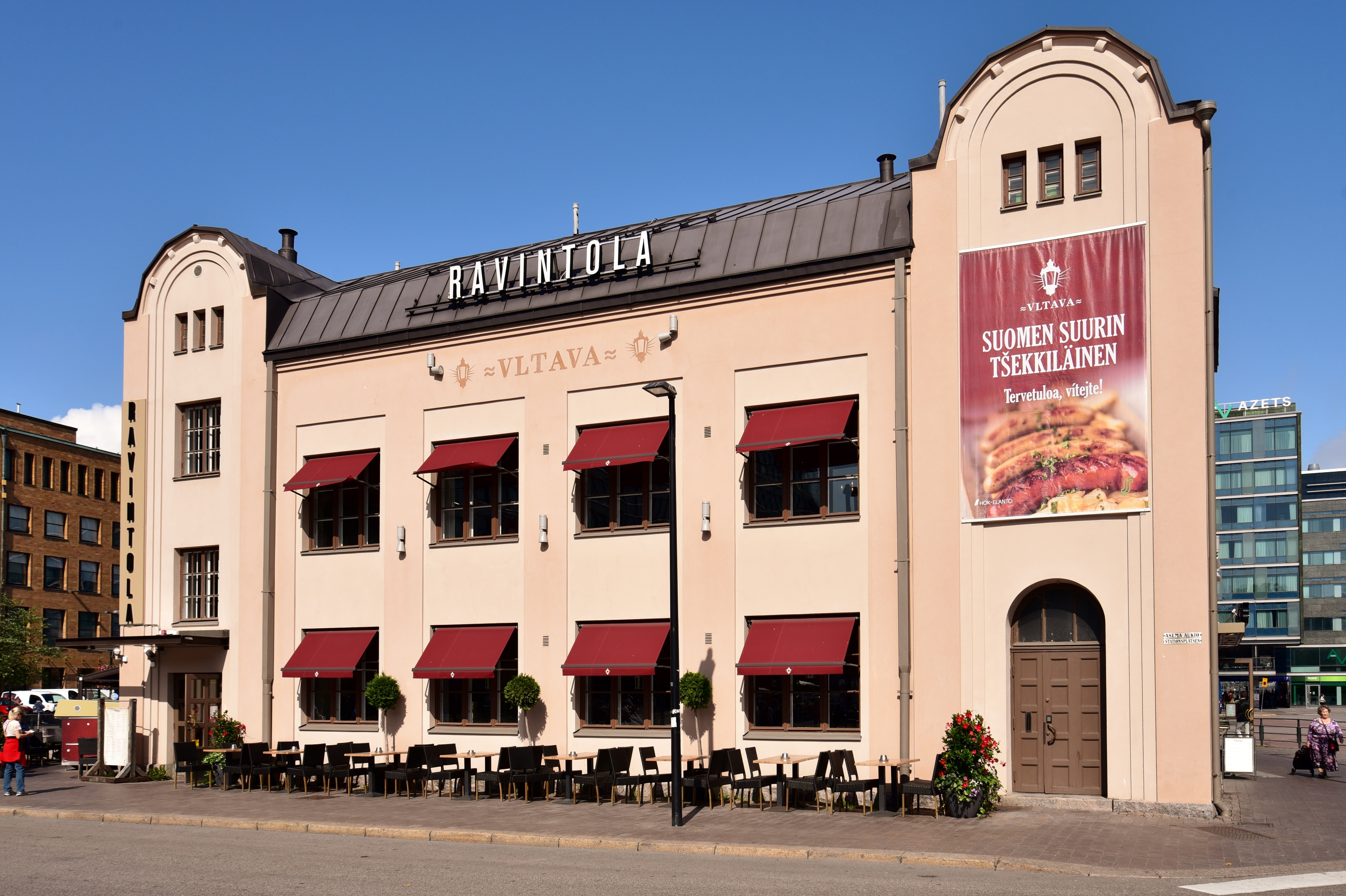 View of Vltava, the largest Czech restaurant in Finland, at Elielinaukio square in Helsinki